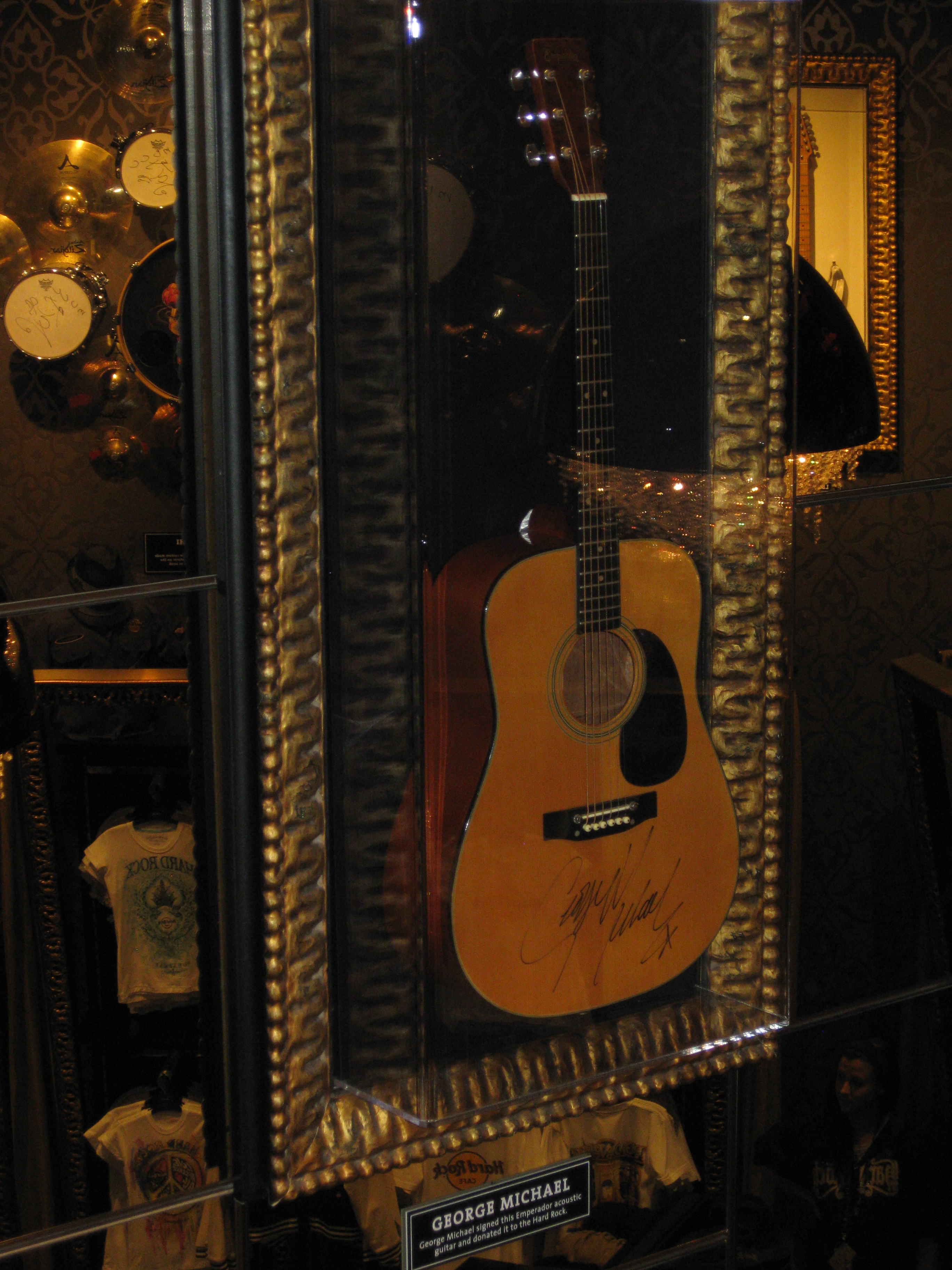 2012 Christmas market at Vörösmarty Square, Budapest.